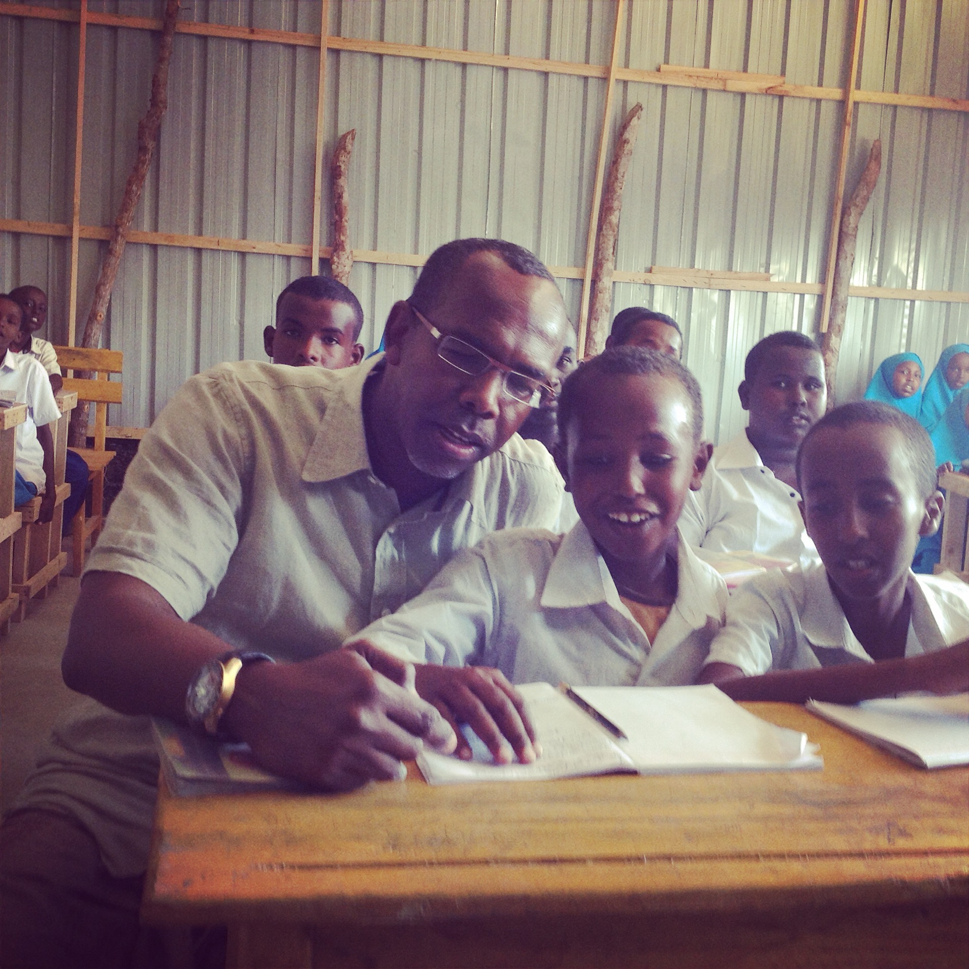 Ambassador Mohamed Ali Nur Americo with pupils at Dadaab refugee camp